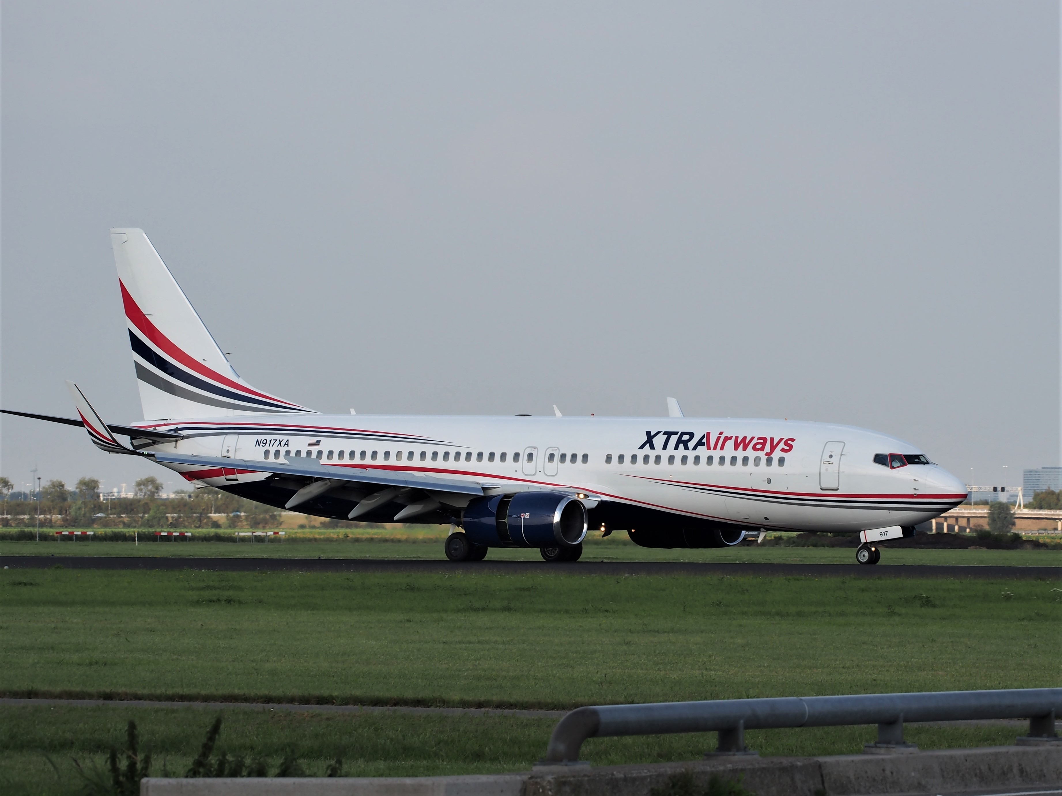 Photographed at Schiphol (EHAM-AMS), The Netherlands.